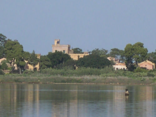 Whitaker House in the Motya isle, in Sicily (Italy).